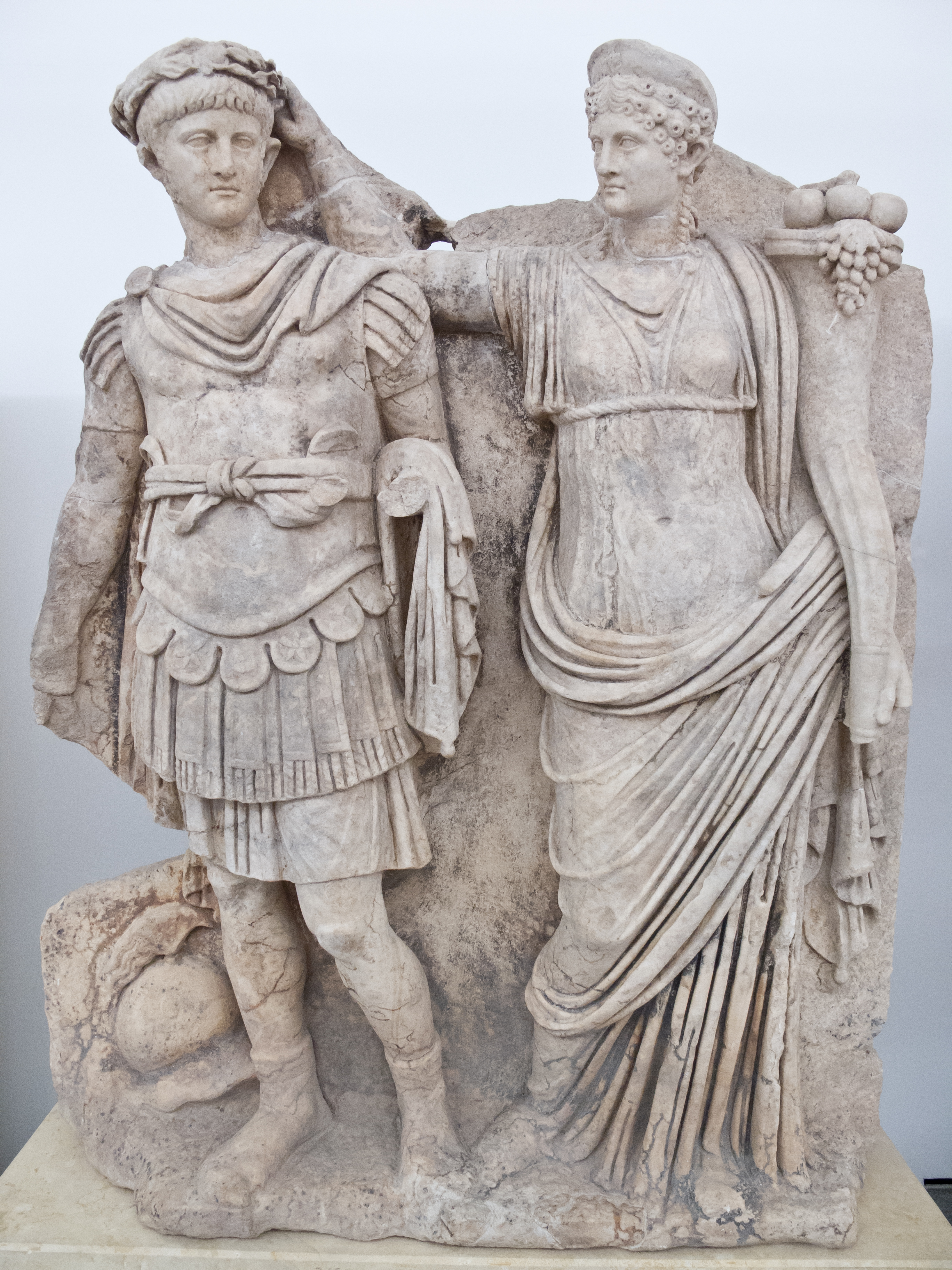 Nero and Agrippina. Agrippina crowns her young son Nero with a laurel wreath. She carries a cornucopia, symbol of fortune and plenty, and he wears the armour and cloak of a Roman commander, with a helmet on the ground at his feet. The scene refers to Nero's accession as emperor in 54 AD and belongs before 59 AD when Nero had Agrippina murdered. (Museum in Aphrodisias, in modern-day Turkey.)